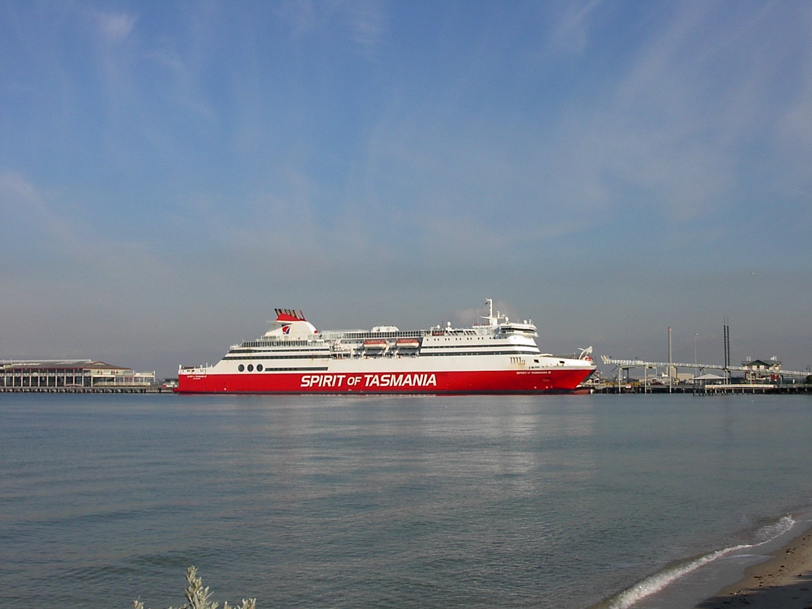 Spirit of Tasmania II at Station Pier Melbourne Photo by User:Adam Carr, April 2006